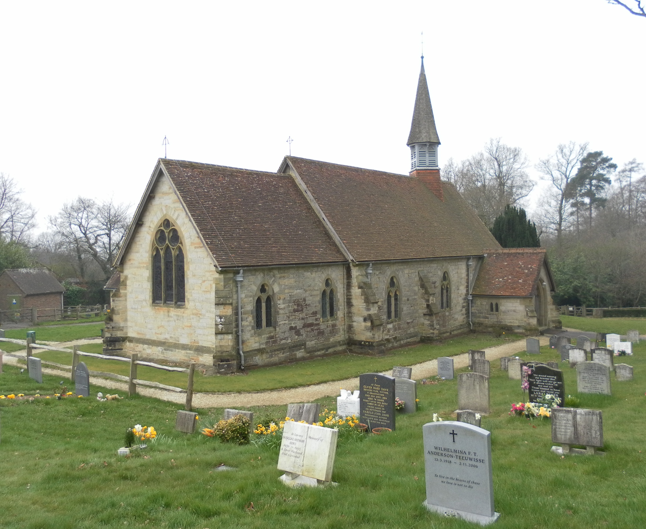 St Bartholomew's parish church, Cross-in-Hand, East Sussex, England, seen from the northeast. Part of the Anglican parish of Waldron.